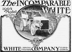 1905 advertisement for White Company automobile Advertisement now in the public domain